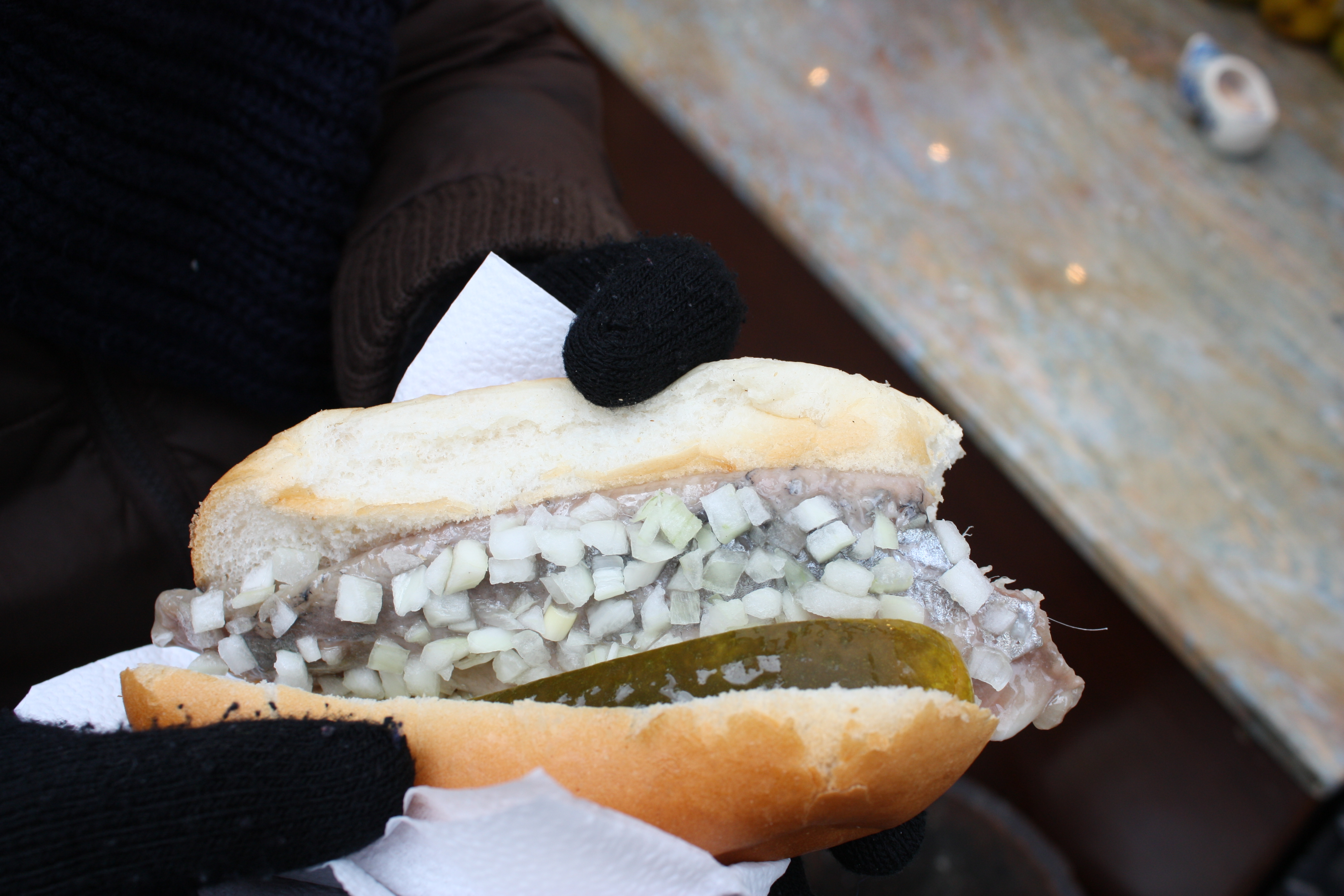 herring sandwich